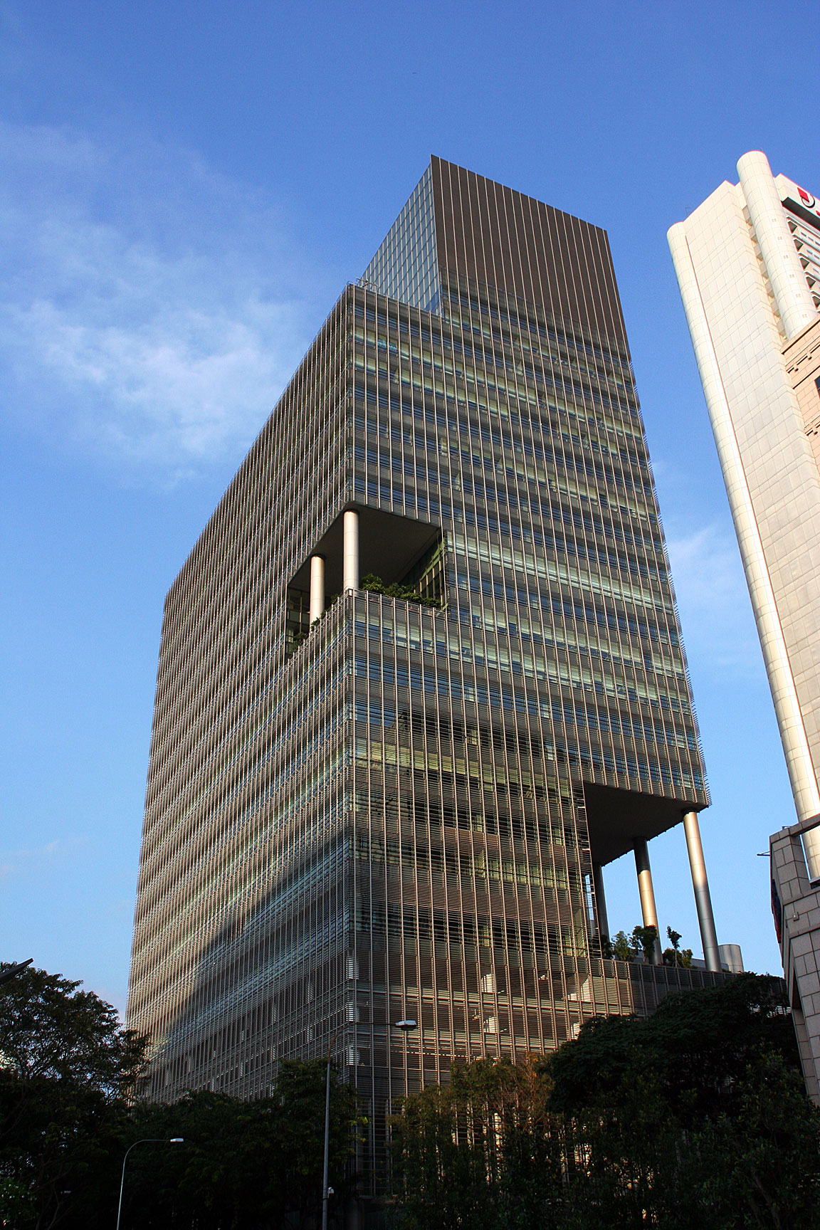 Description: One George Street seen from the west. Source: Self-made Location: Raffles Place, Singapore Date: 12/02/2006 18:12 Photographer/Painter: Huaiwei